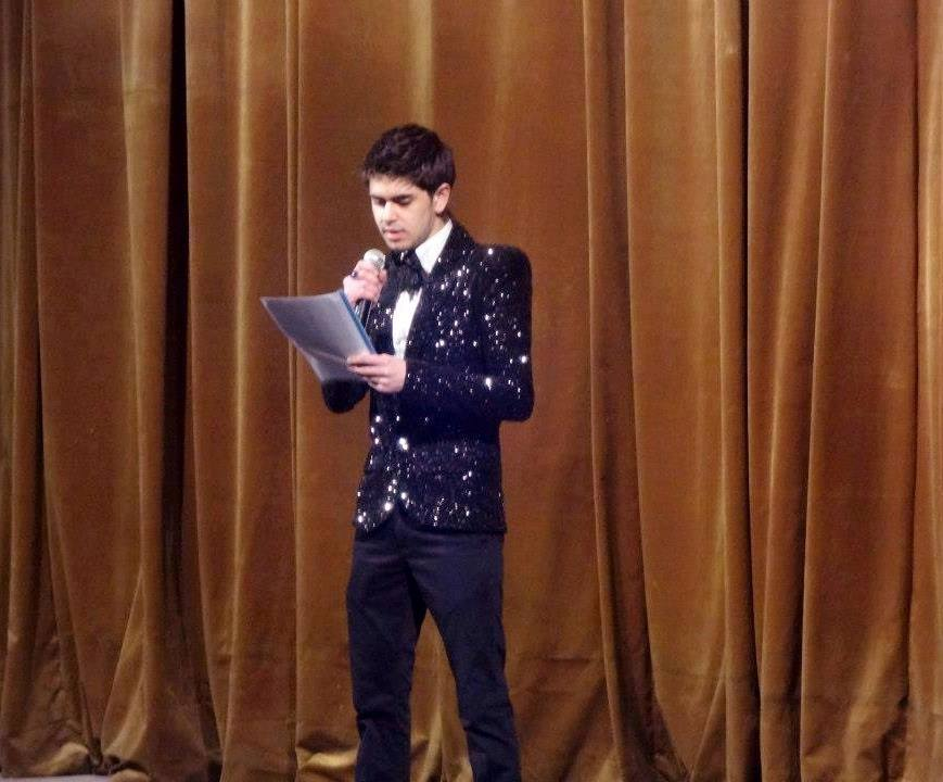 David Gharibyan